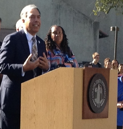 SJSU President Mohammad Qayoumi speaks at the podium during a rally organized by the NAACP outside Clark Hall on a Fall afternoon.